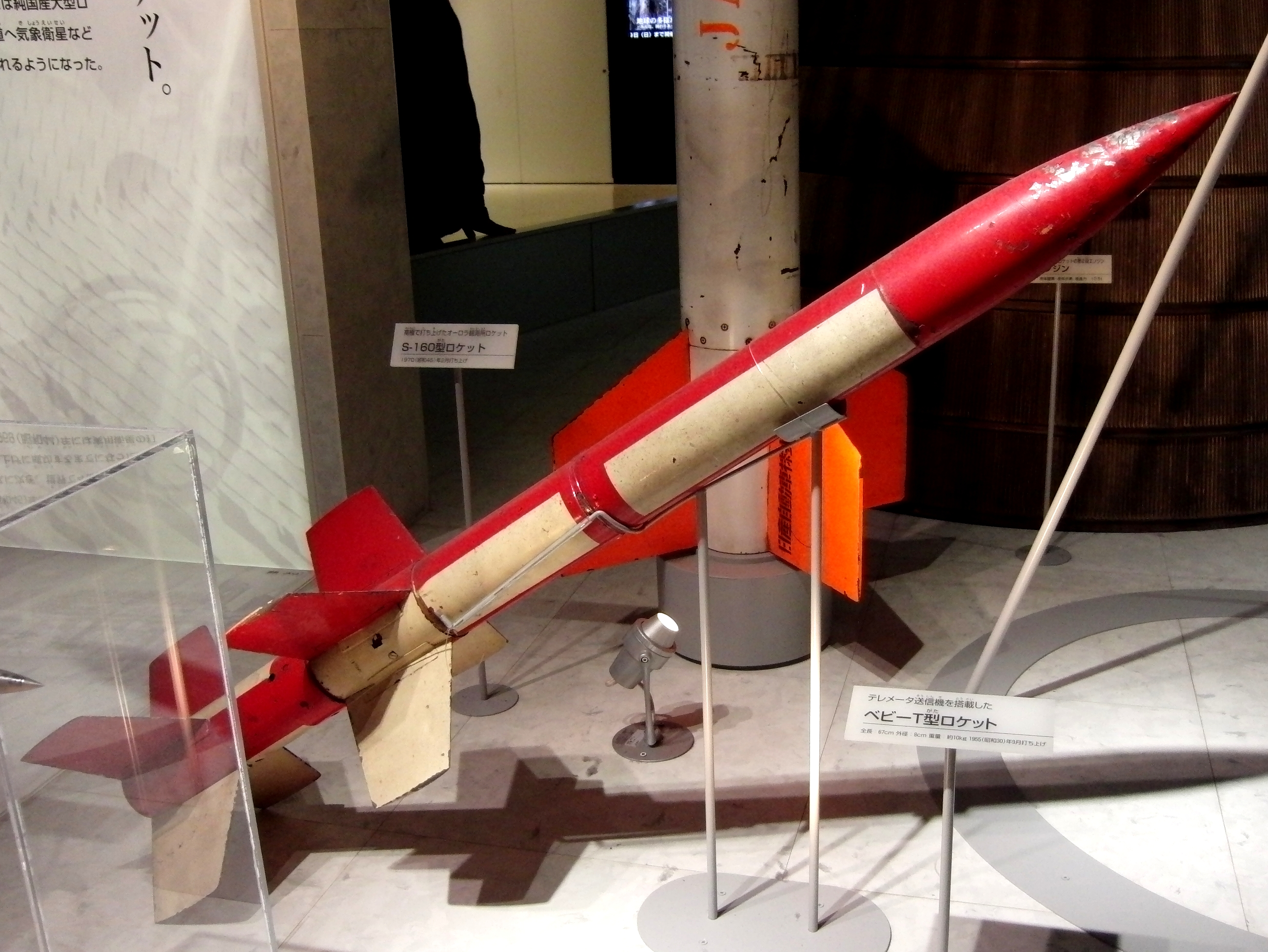 Baby T-type Rocket. Exhibit in the National Museum of Nature and Science, Tokyo, Japan.